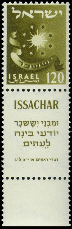 Tribes stamp - 120 mil - Issachar. Second definitive series. Inscription on tab: "And the children of Issachar, which were men hat had understanding of the times..." I Chronicles XII, 32.